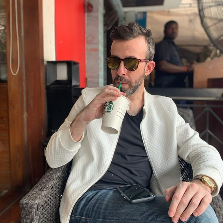 Duane Rousselle, Psychoanalyst and American Sociologist